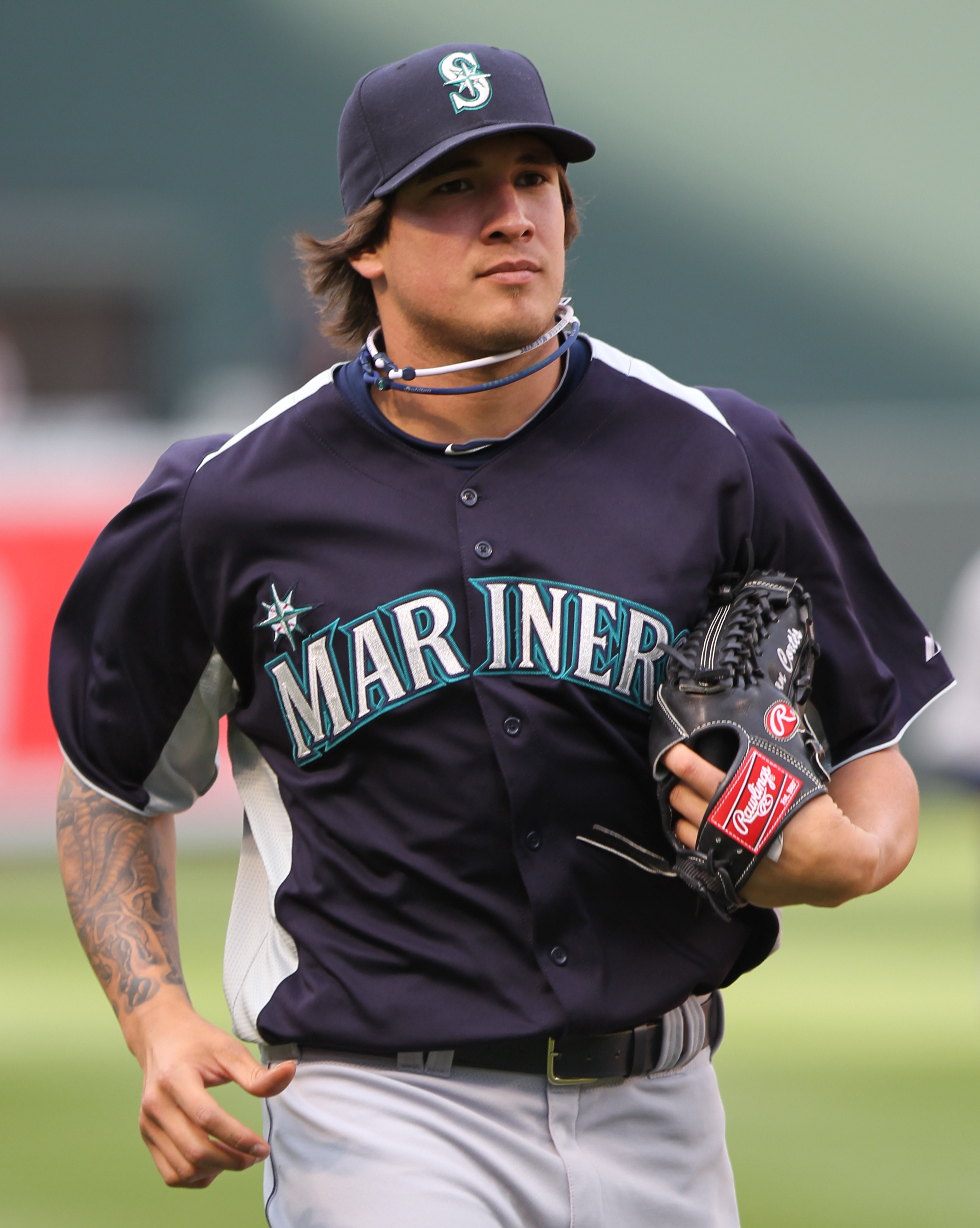 Dan Cortes